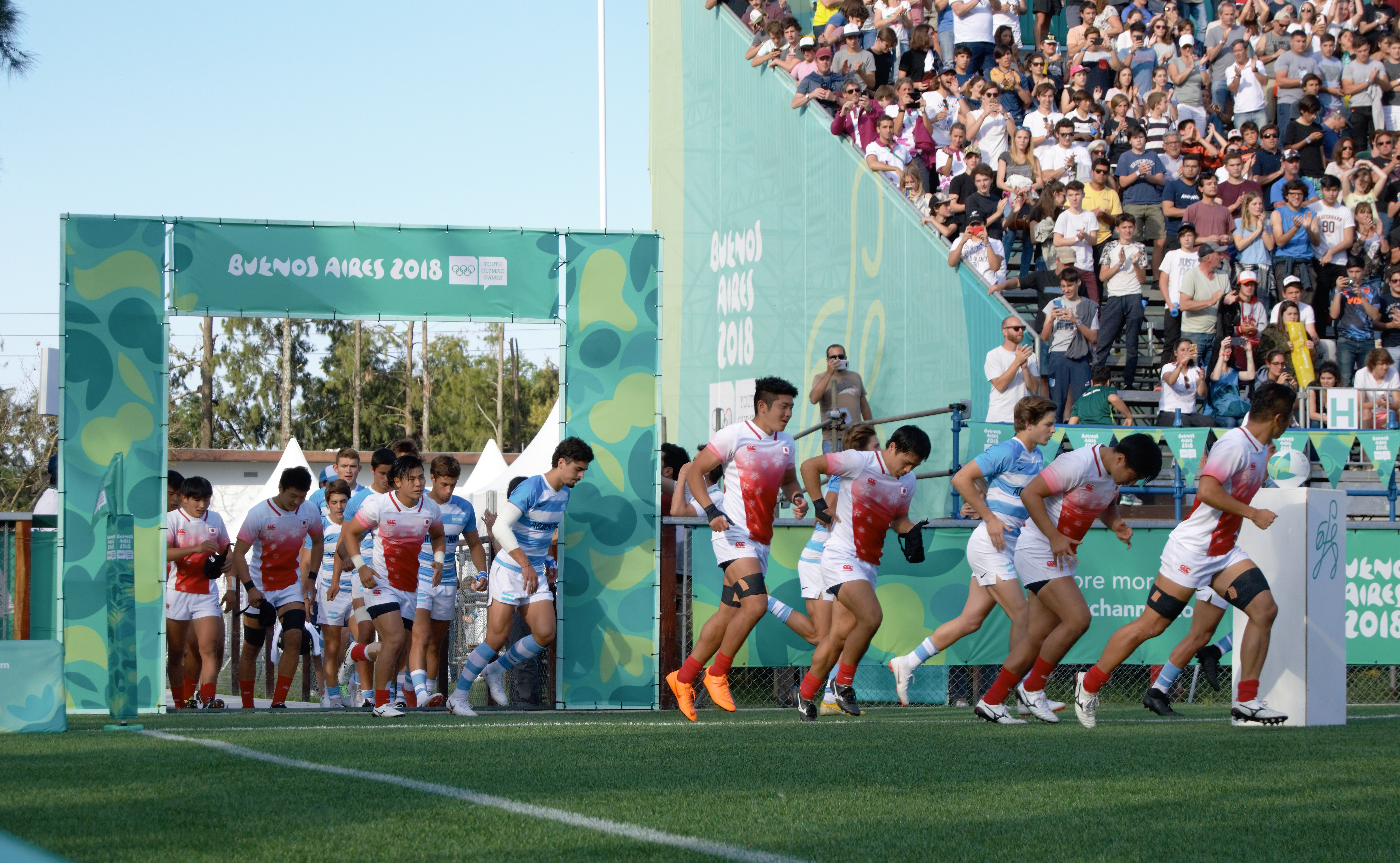 Rugby Sevens match between Argentina and Japan during the mens pool of the 2018 Summer Youth Olympics.